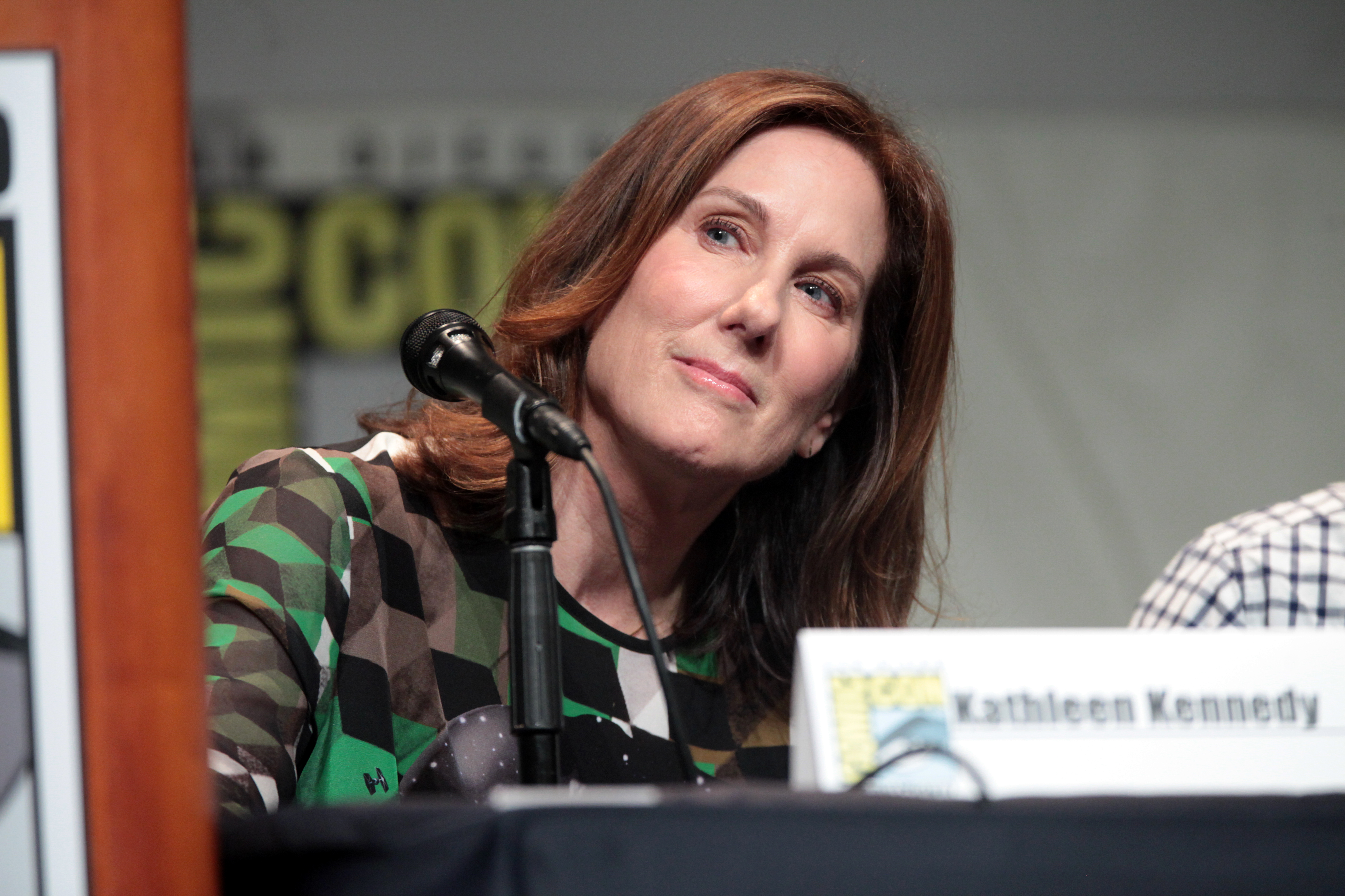 Kathleen Kennedy speaking at the 2015 San Diego Comic Con International, for "Star Wars: The Force Awakens", at the San Diego Convention Center in San Diego, California.